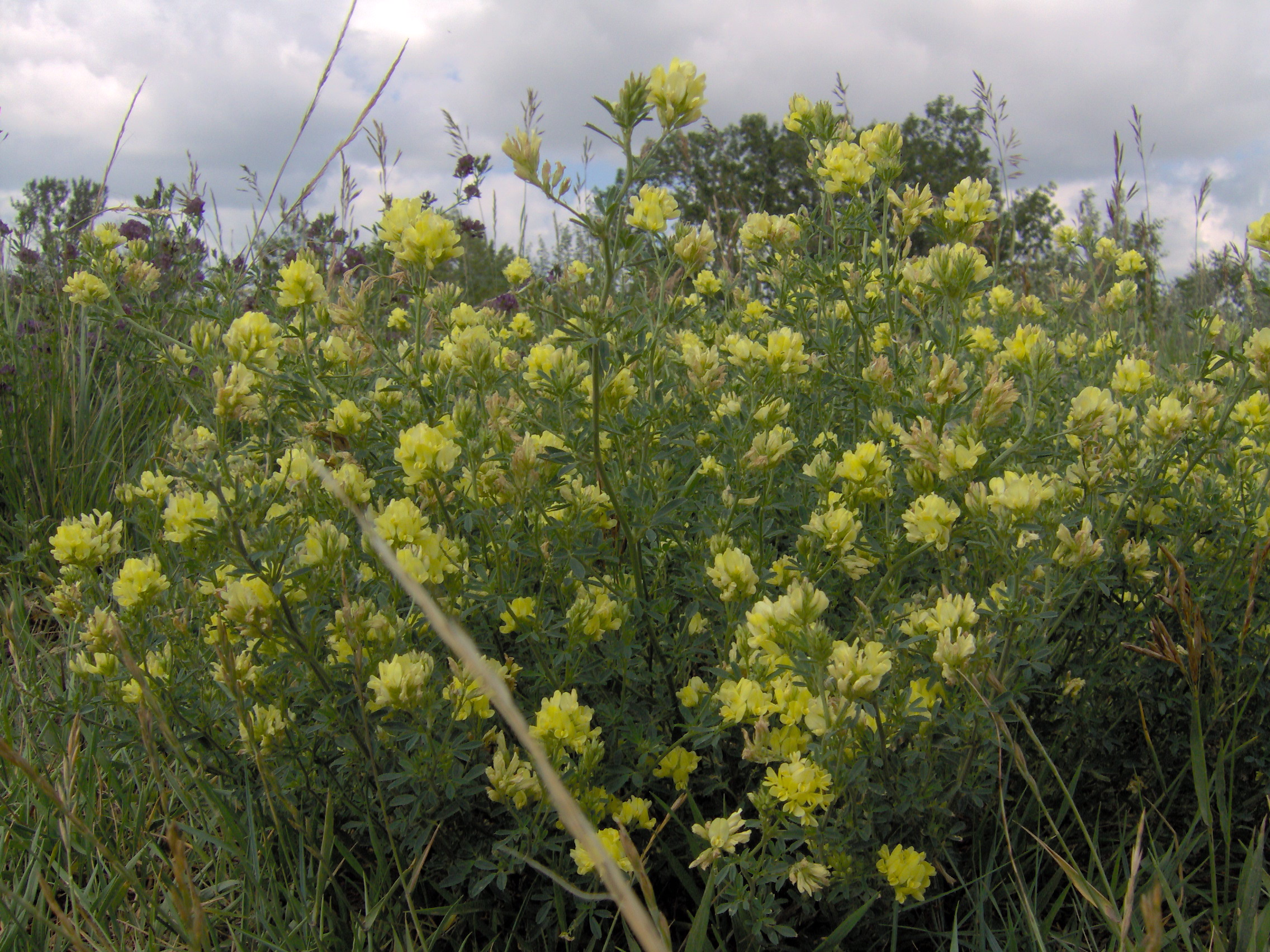 Yellow prairie flower Saskatchewan ...It has a curly seed pod - a type of Fabaceae -Alfalfa Medicago sativa- see close up at Image:SKFabaceae.JPG and summer plant at Image:PurplePrairieFlower.JPG Primary flower colours can range from Blue, Yellow, Purple...or blue-violet to purple. Primary color and any variations from this list: purple, blue, green, yellow, orange, brown, red, pink or white.... Compare to Plant Detail: Medicago sativa Alfalfa (Medicago sativa) - Poisonous Plant Information Effect of chickling vetch (Lathyrus sativus L.) or alfalfa ... The Encyclopedia of Saskatchewan Alfalfa Medicago sativa A Field Guide to Wildflowers By Roger Tory Peterson, Margaret McKenny, National Audubon Society, Saskatchewan field in August, Alfalfa Medicago sativa